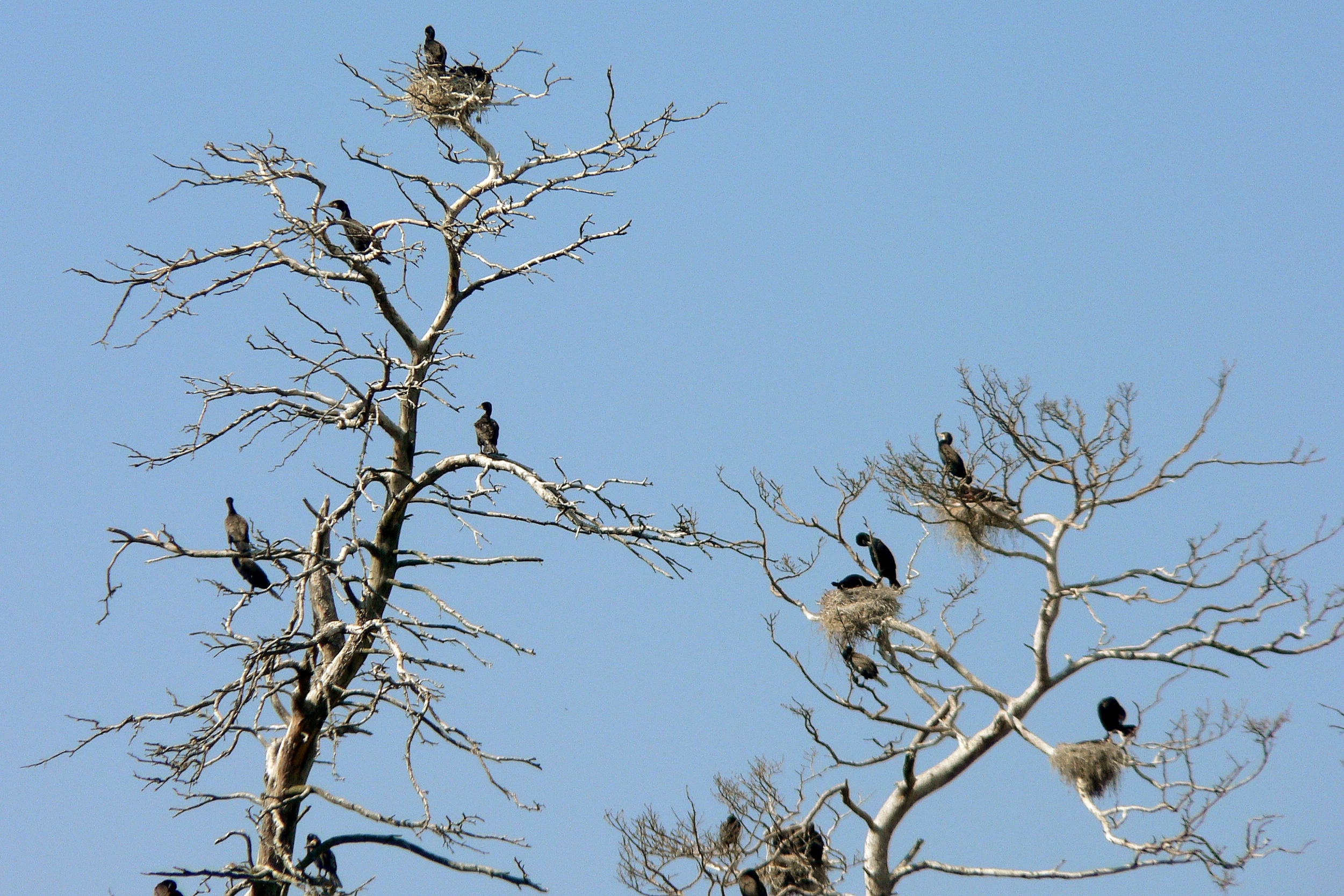 Great Cormorant nests on the dead trees east of Juodkrantė, Lithuania